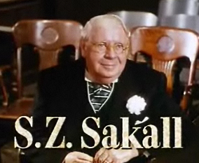 Cropped screenshot of S. Z. Sakall from the trailer for the film Small Town Girl.